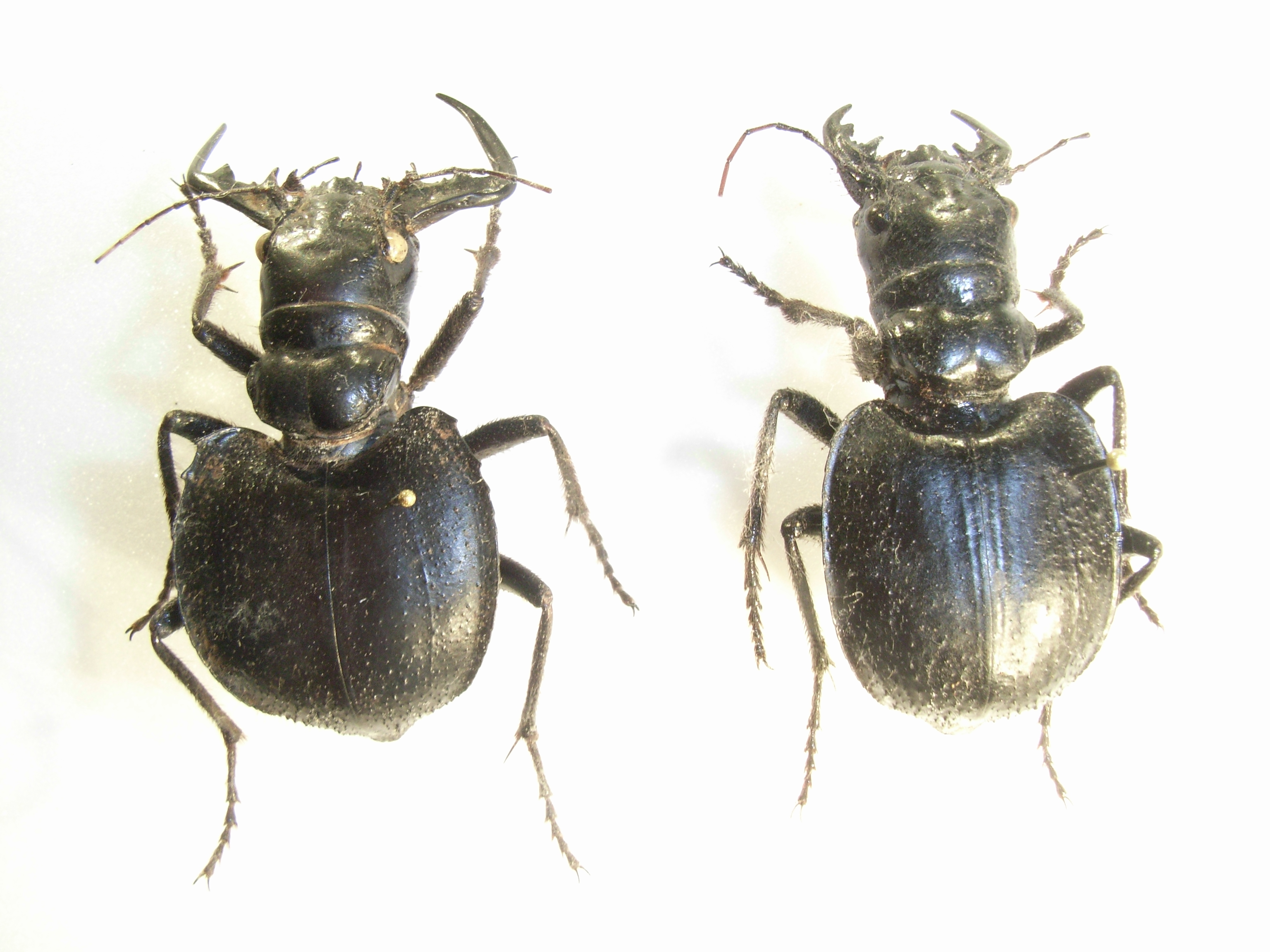 Manticora latipennis Waterhouse, 1837. Ex coll. Felix Stumpe.